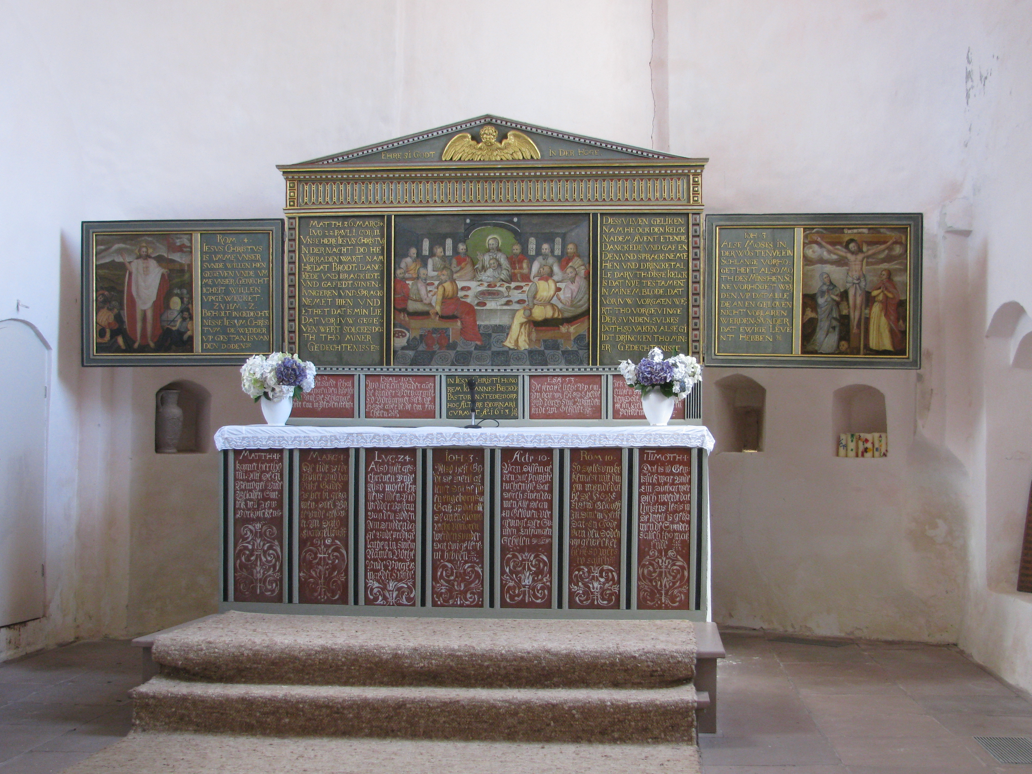 Interior of the St.-Aegidien-Kirche (Stedesdorf), altar from 1613 with inscriptions in midevial Plattdetusch (Low German language)